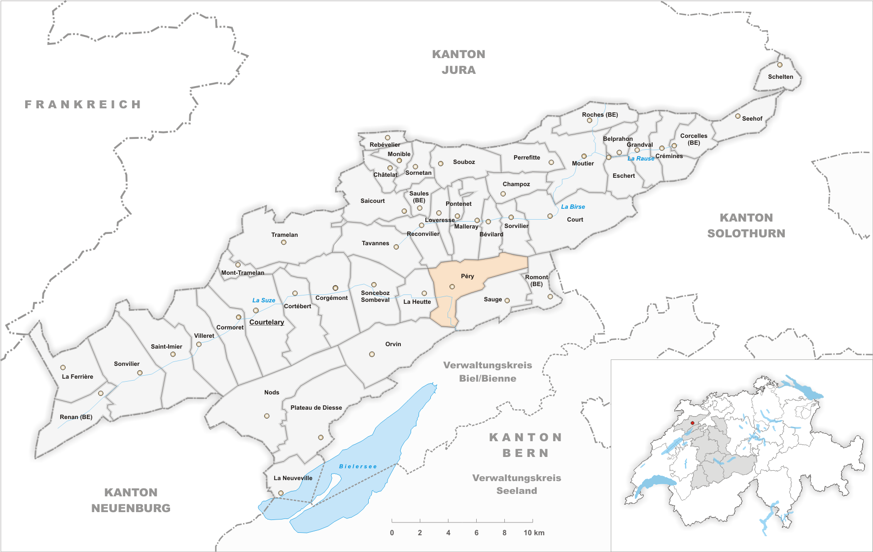 Municipality Péry